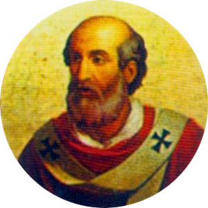 Portait of Pope Benedict IV in the Basilica of Saint Paul Outside the Walls, Rome